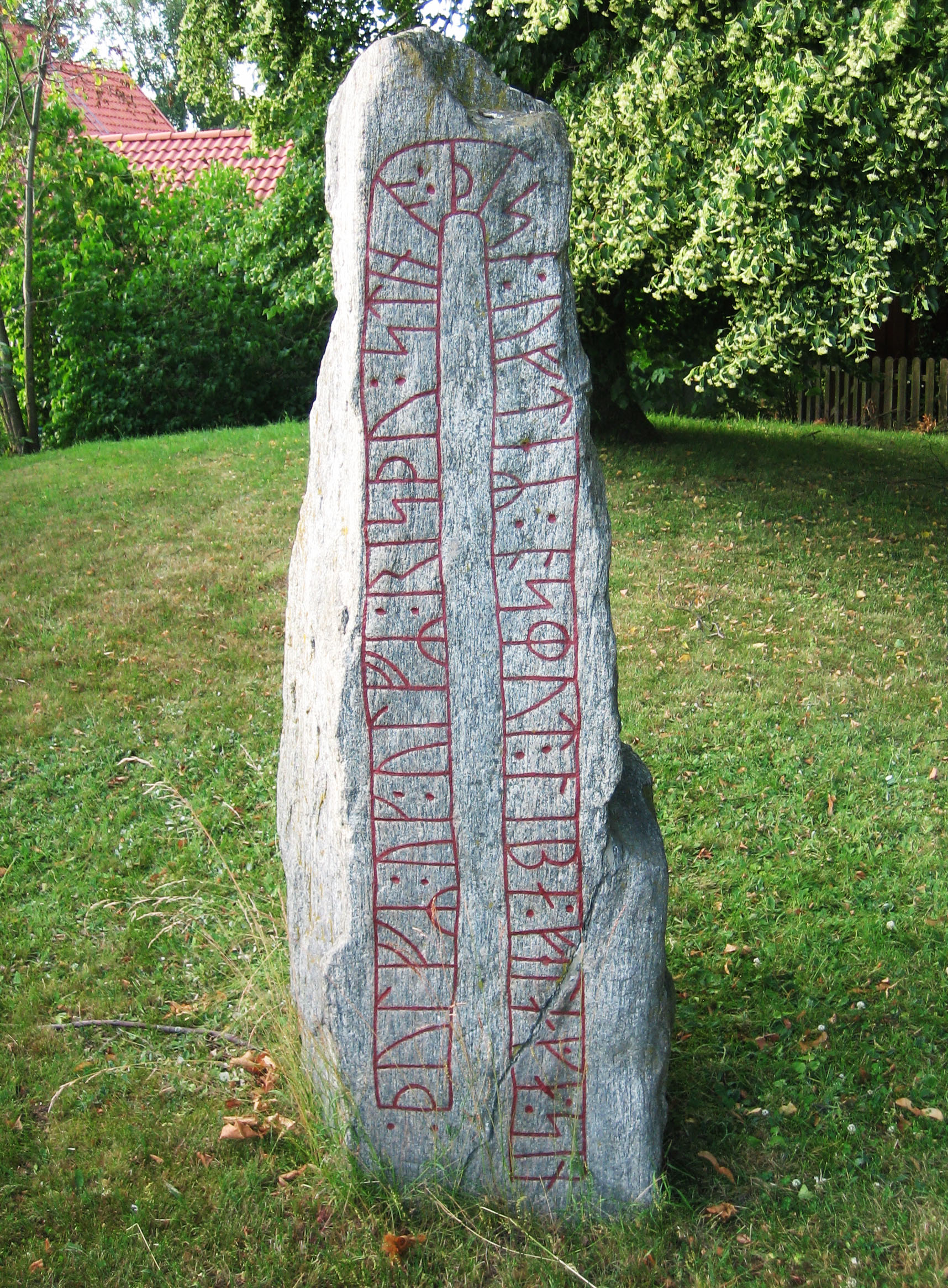 The runestone Gårdstångastenen 1, DR 329, in Flyinge, Eslövs kommun, Sweden. Photo by the uploader.